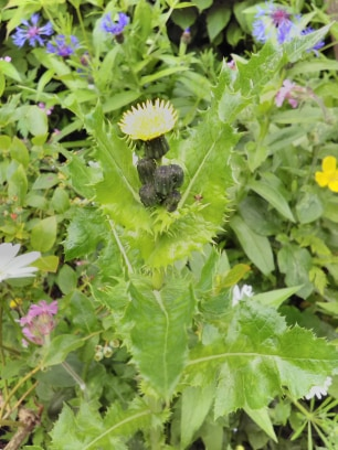 A Sow Thistle in a garden in Scotland